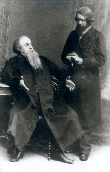 Rybakov (as Bolshov) & M. Sadovsky (Podhalusyn) in Ostrovsky's "Svoy ludy - sochtemsya" (It's a Family Affair, or The Bankrupt)in Maly theater (1892)